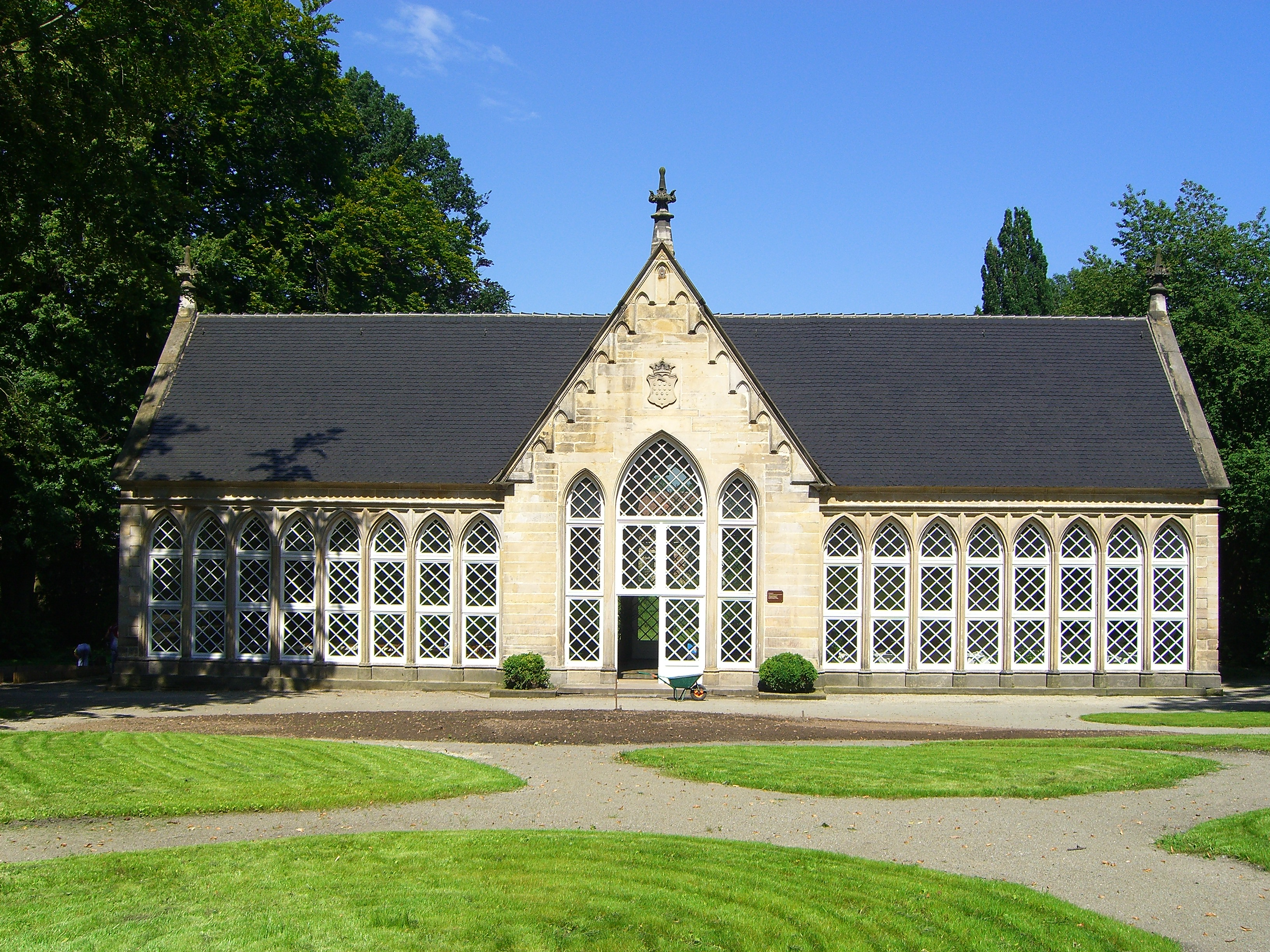 Orangery in the palace garden of Harbke. The orangery was built in 1830/1831 for tropical plants.